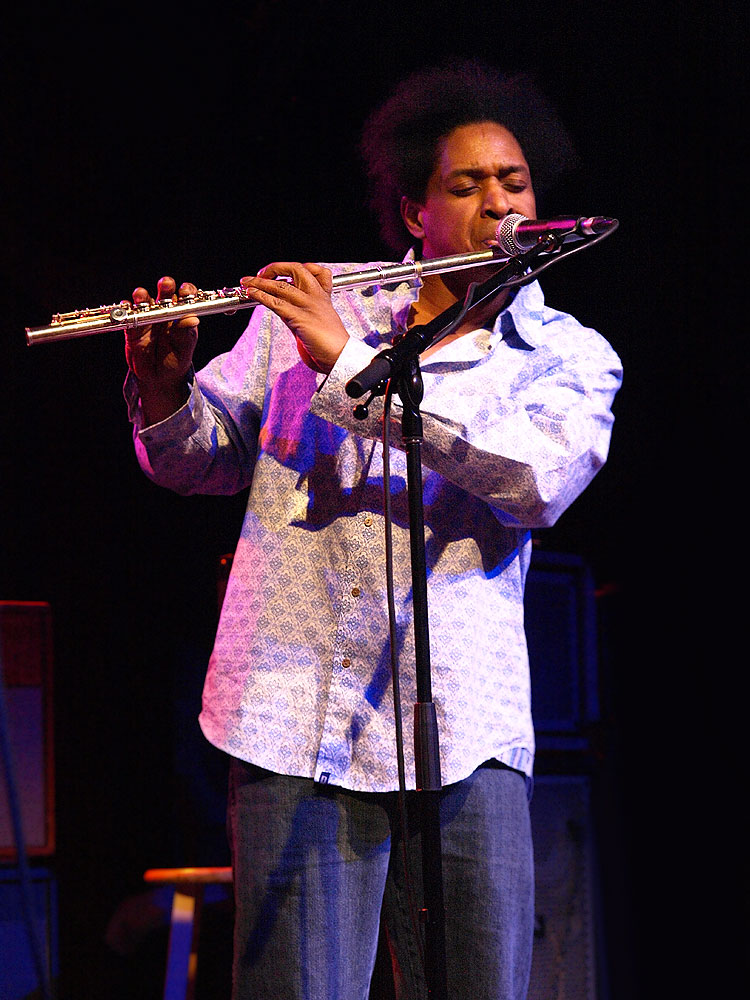 Kofi Burbridge with Soulive with Charlie Hunter and guests @ Brooklyn Bowl (Bowlive) 3/9/10